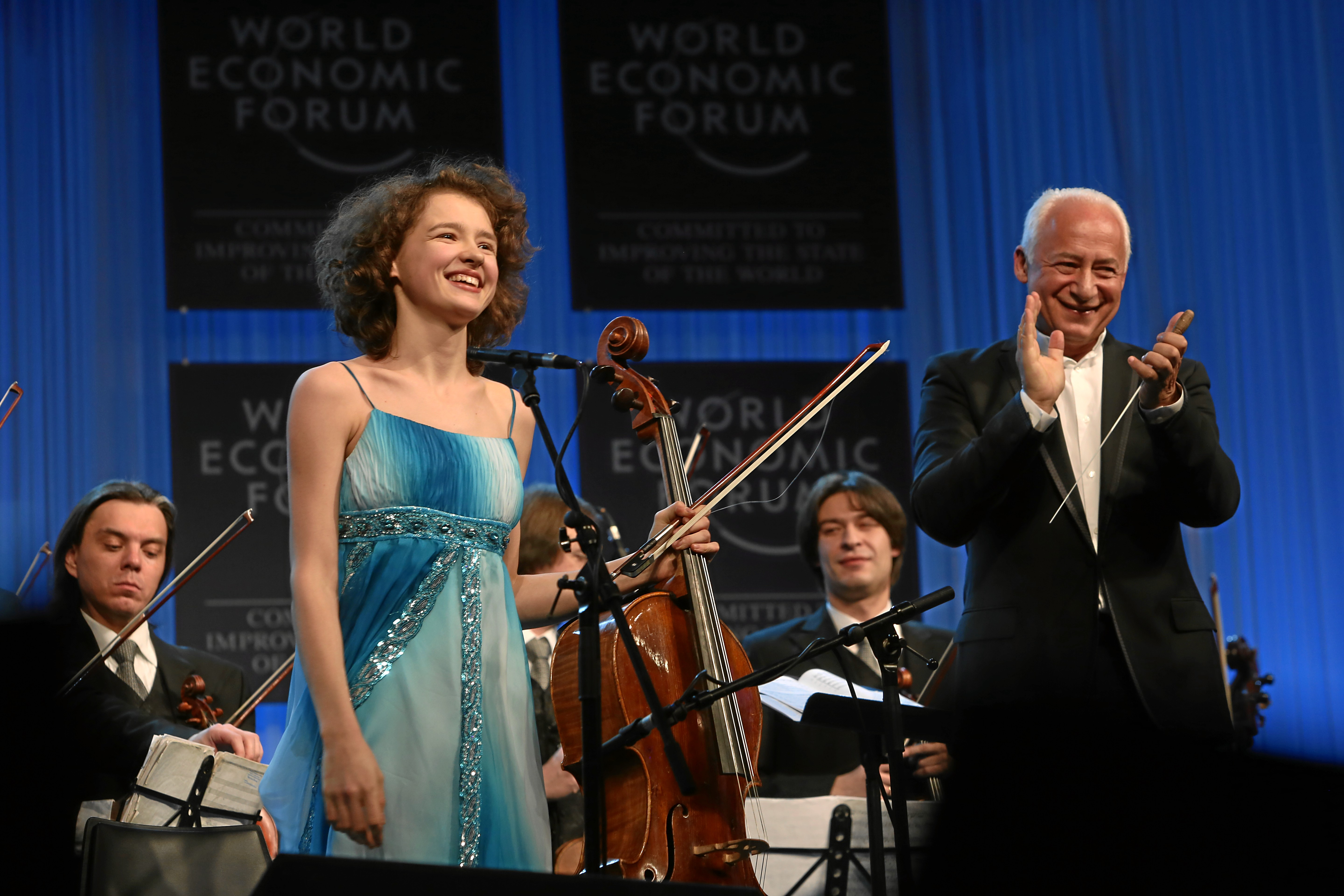 DAVOS/SWITZERLAND, 22JAN13 - Vladimir Spivakov, Violinist, Conductor and President, Vladimir Spivakov International Charity Foundation, MoscowMoscow Virtuosi plays with the Chamber Orchestra, with talented young soloists, under the leadership of Maestro Vladimir Spivakov during the special concert 'Exploring Arts in Society' at the Annual Meeting 2013 of the World Economic Forum in Davos, Switzerland, January 22, 2013. Copyright by World Economic Forum Monika Flueckiger